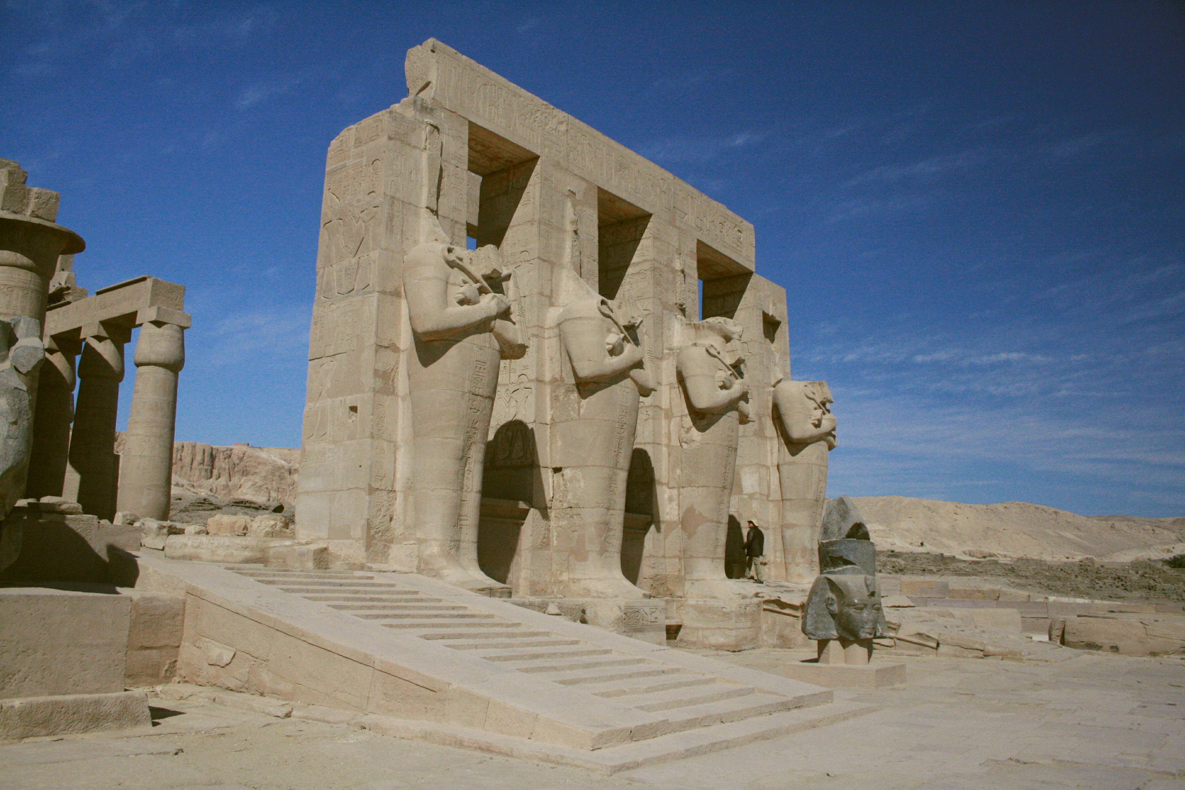 Mortuary Temple of Rameses II - The Ramasseum